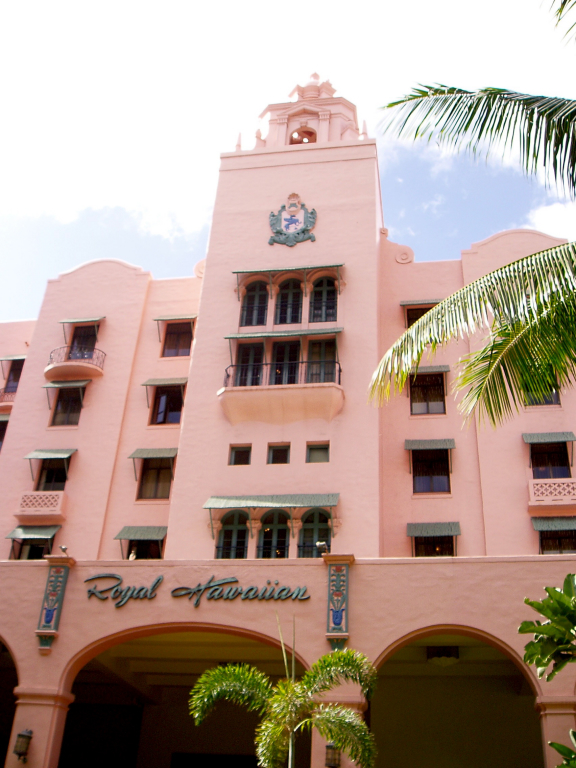 the pink palace